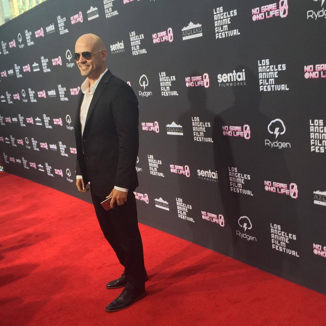 Special guest at the Red Carpet event for LA Anime Film Festival celebrating 100 years of Anime